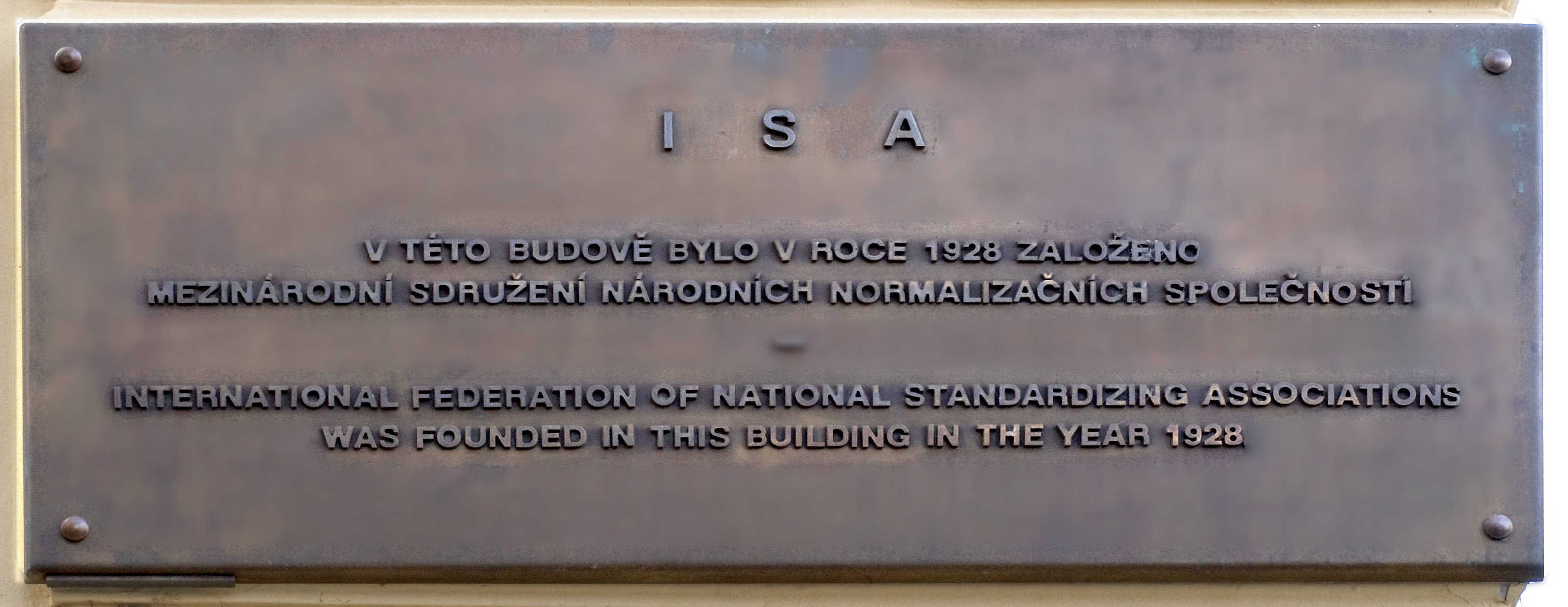 Plaque on a house in Prague, where International Federation of the National Standardizing Associations (ISA) was founded in 1928